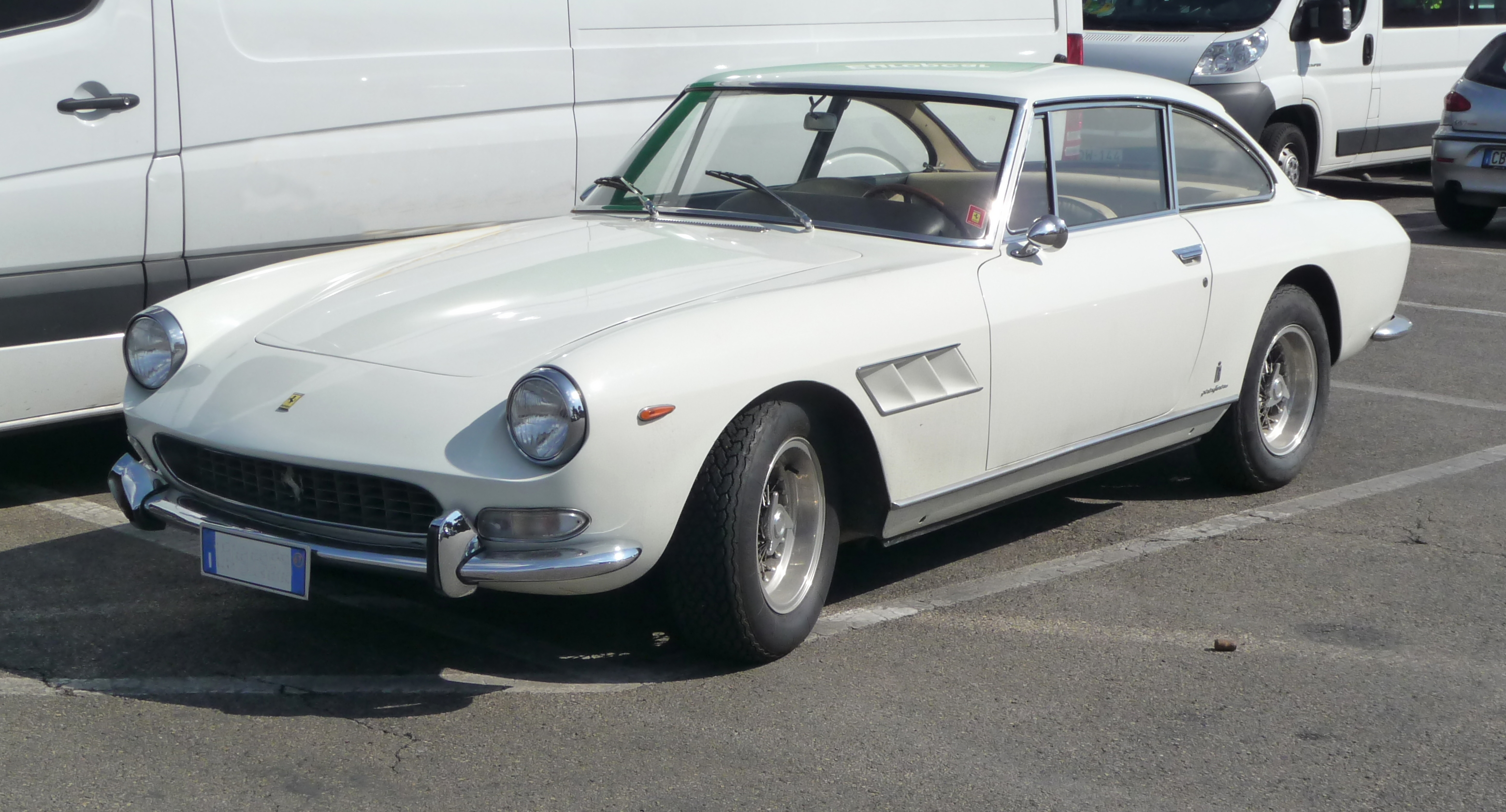 Ferrari